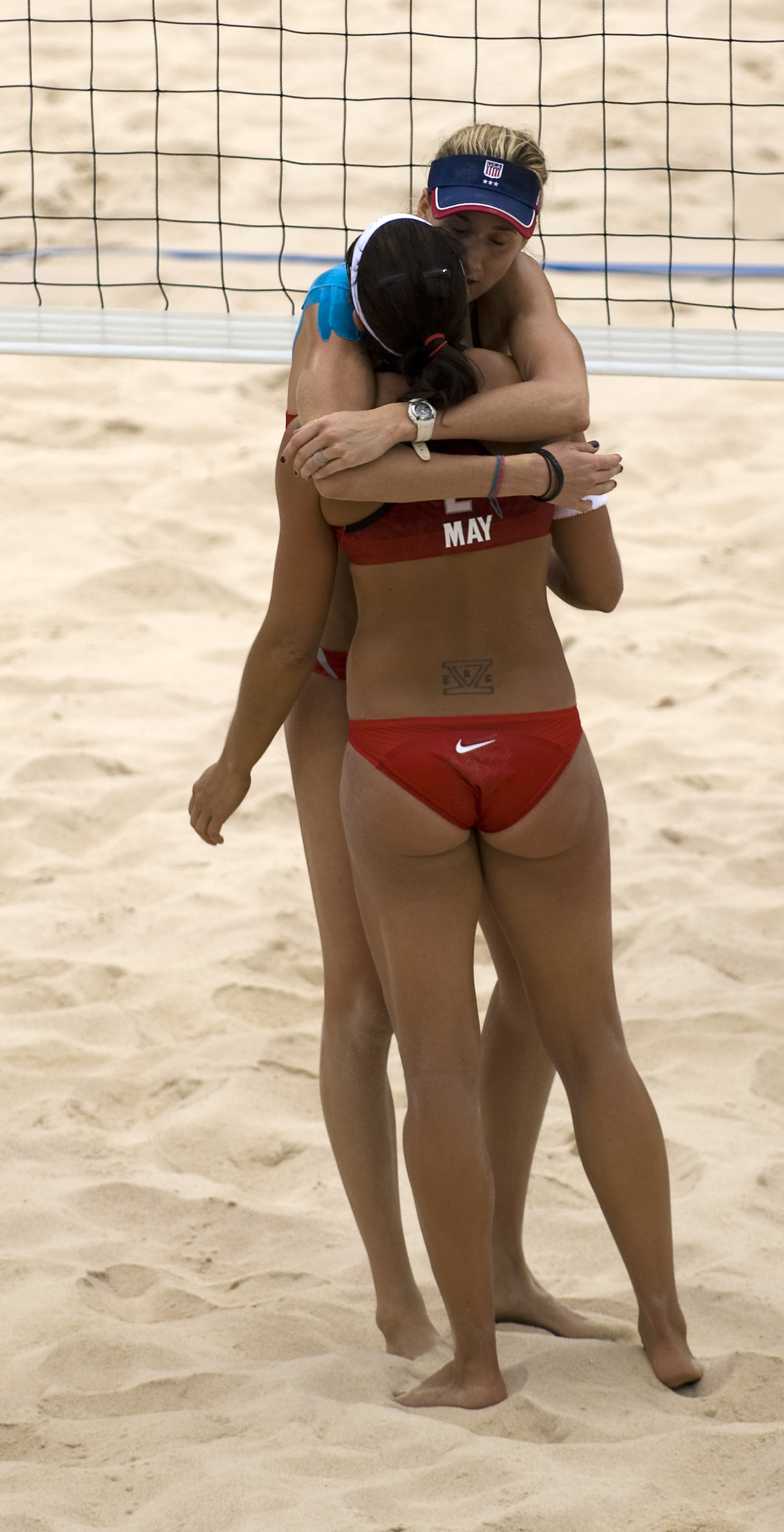 Team USA celebrates after defeating Brazil in the Beijing Olympic quarterfinal match.